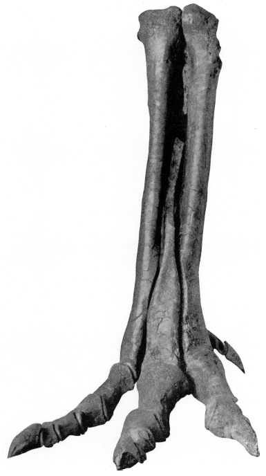 Right hind foot of Alectrosaurus olseni. No. 6368, A.M.N.H.